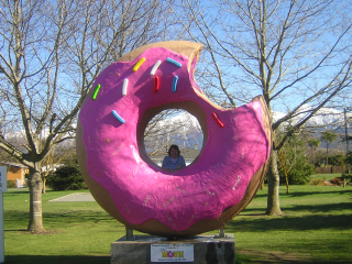 Photograph of the artificial donut erected in Springfield, Canterbury, New Zealand on 1 October 2007.